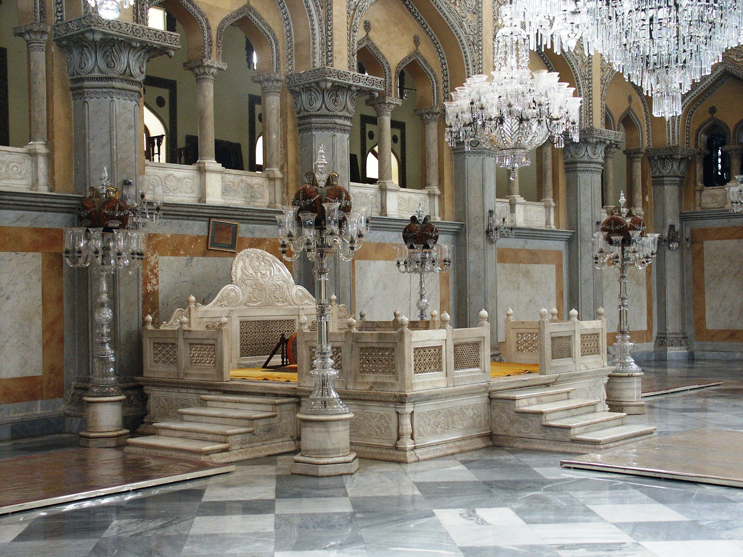 gaddi (throne) of the Nizam of Hyderabad, late 19th century